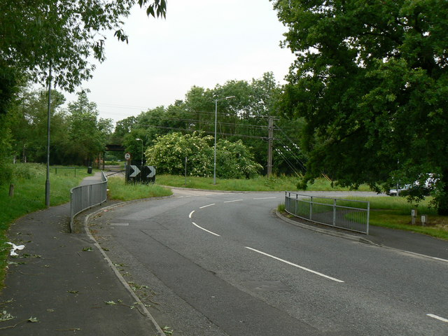 Reading Road turns into Hanmore Road